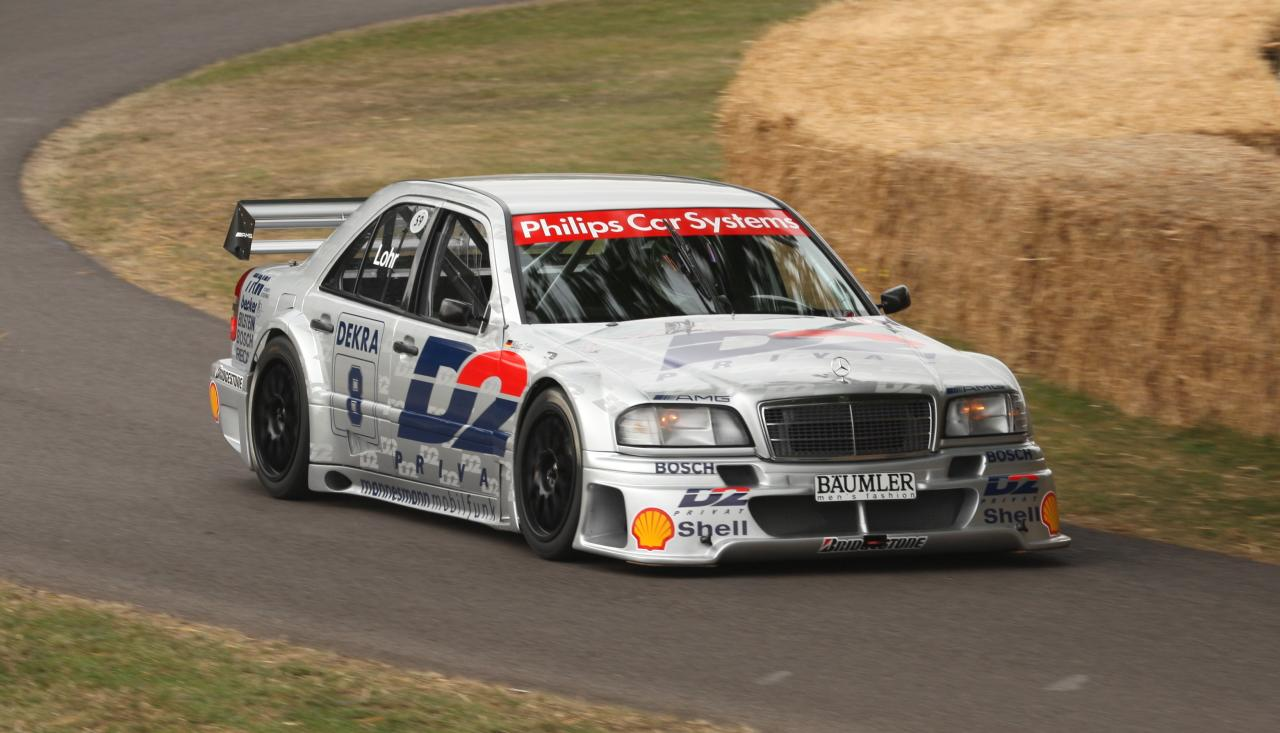 Goodwood festival of speed 2010